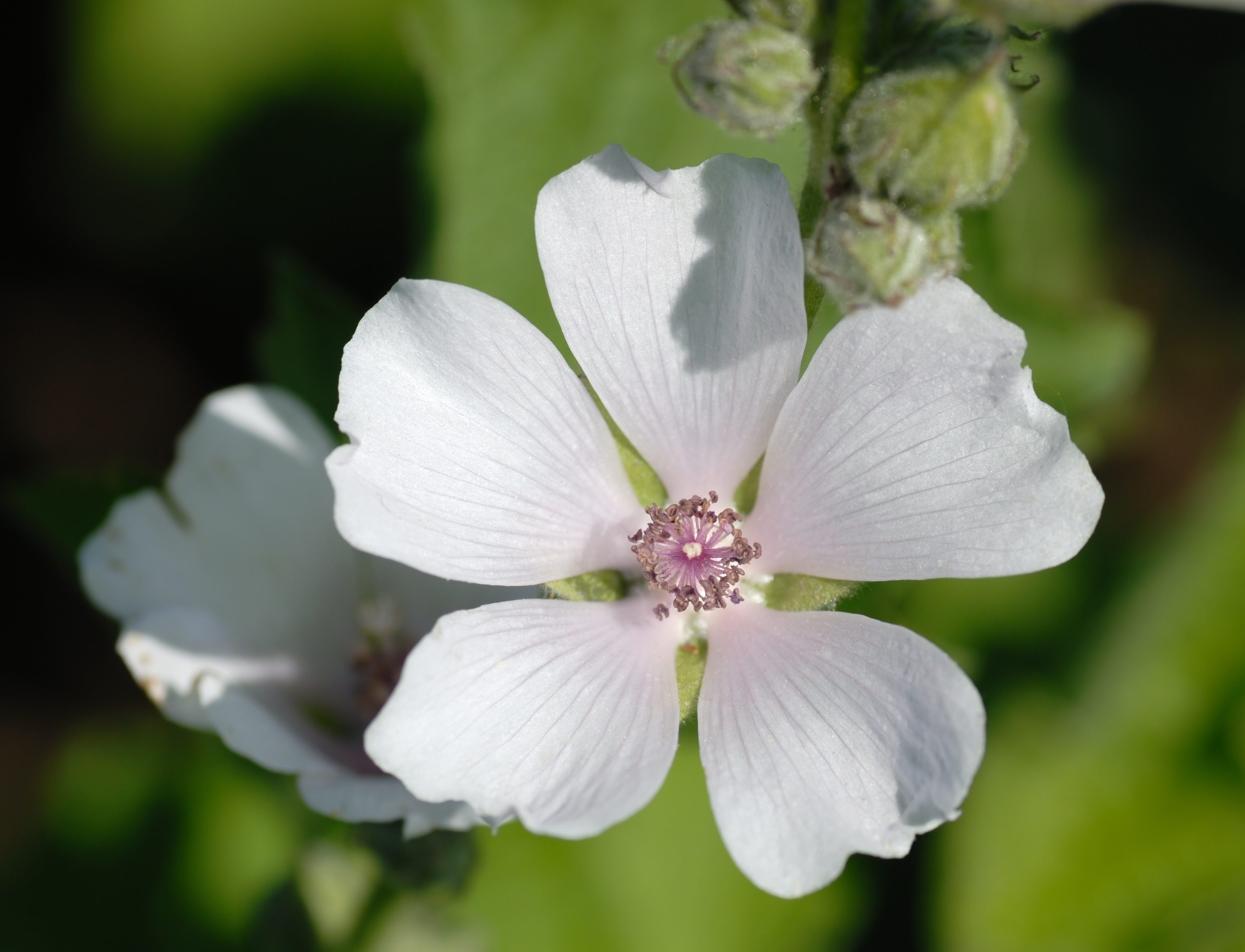 This image shows the flower of a Common Marshmallow (Althaea officinalis).